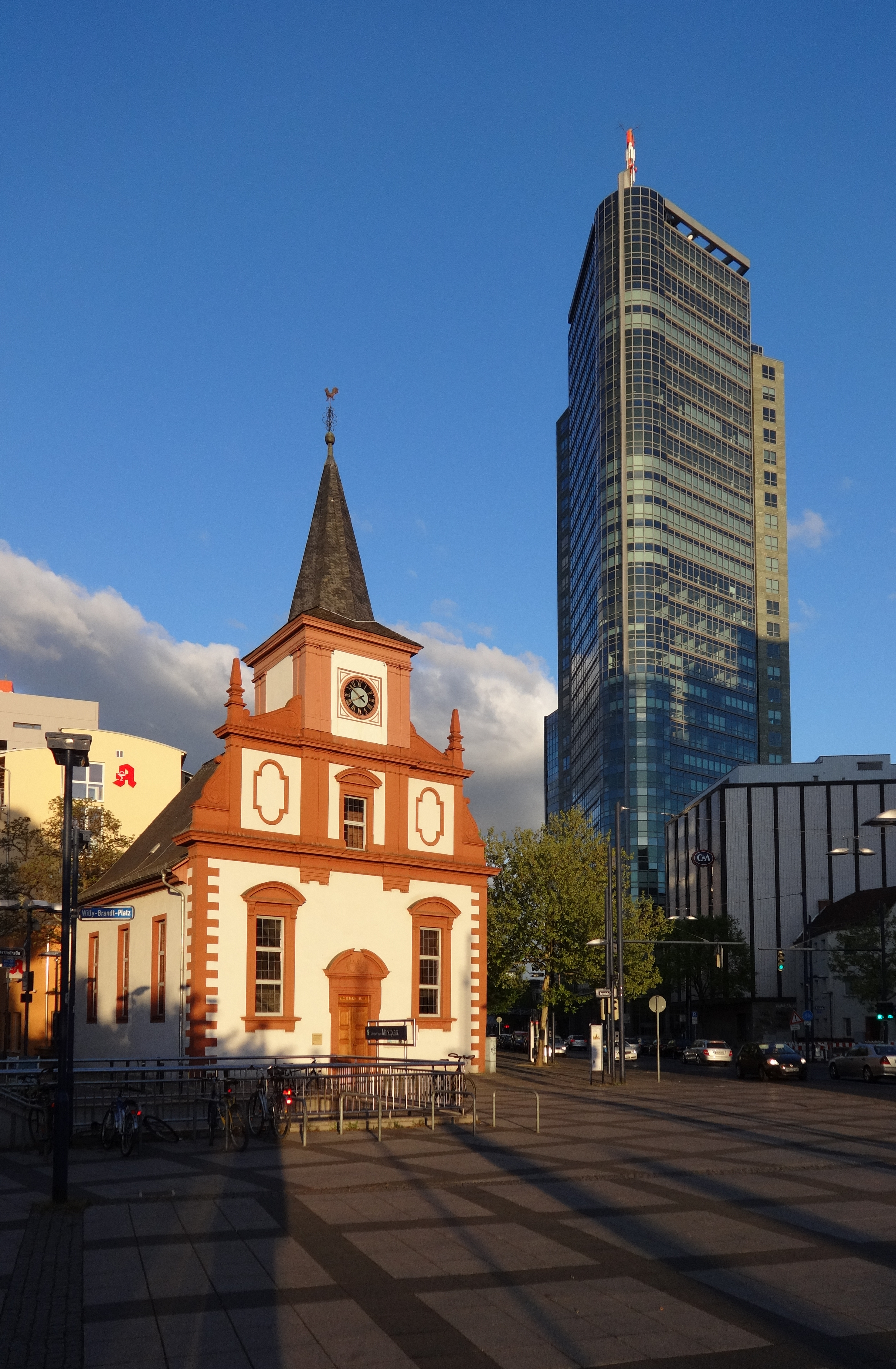 Offenbach/Main, Germany